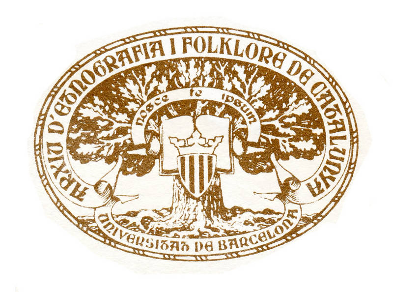 Ex Libris from Ethnographic and Folkloric Archive of Catalonia